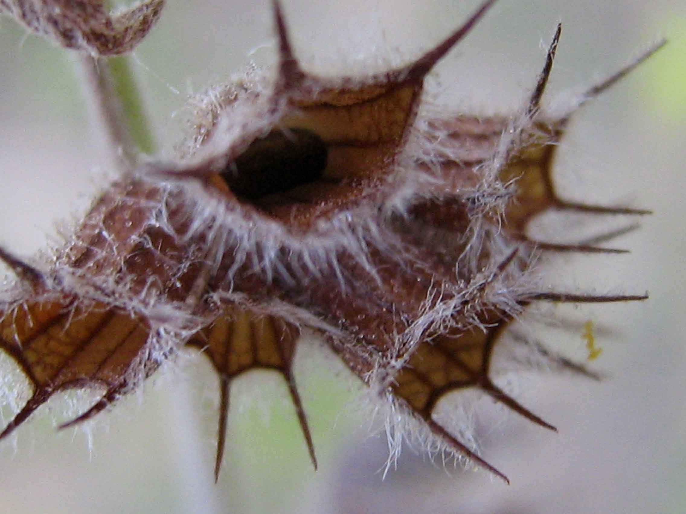 Mesosphaerum suaveolens (L.) Kuntze, Lamiaceae, Atlantic forest, northeastern Bahia, Brazil Shrub 2 m. Popovkin 506 (HUEFS).